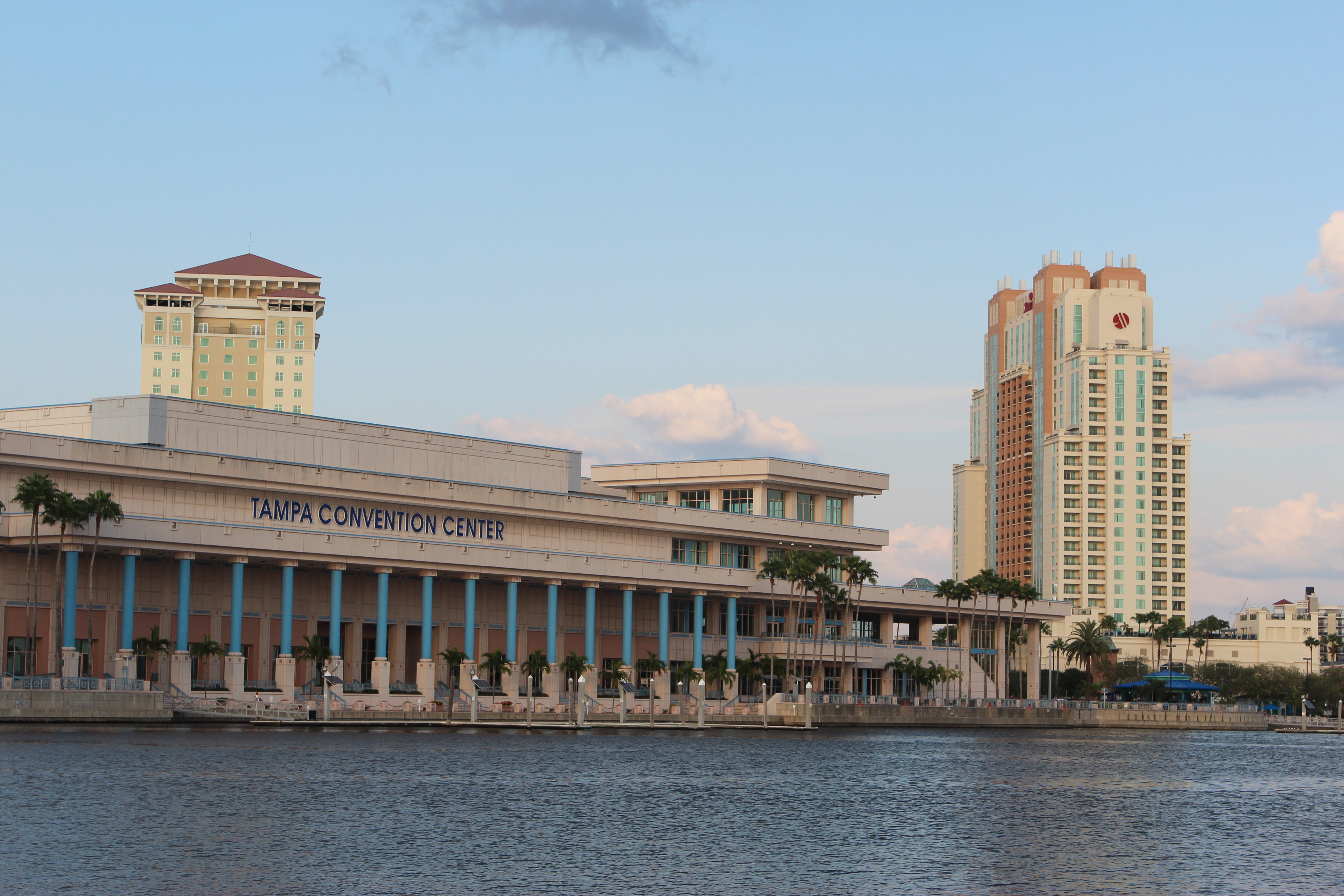 The Tampa Convention Center hosted the 2012 Republican National Convention.